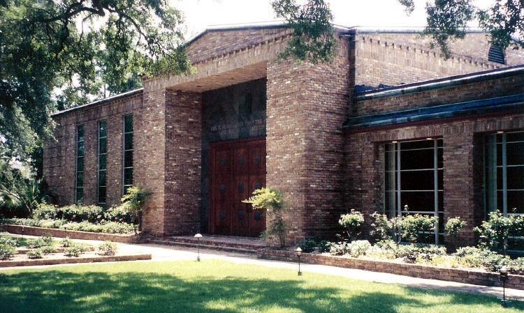 The Springhill Avenue Temple in Mobile, Alabama.